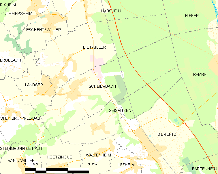 Map of French municipality